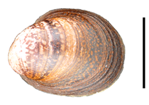 Photo of an abapertural view of a shell of Neripteron violaceum. Scale bar is 10 mm.